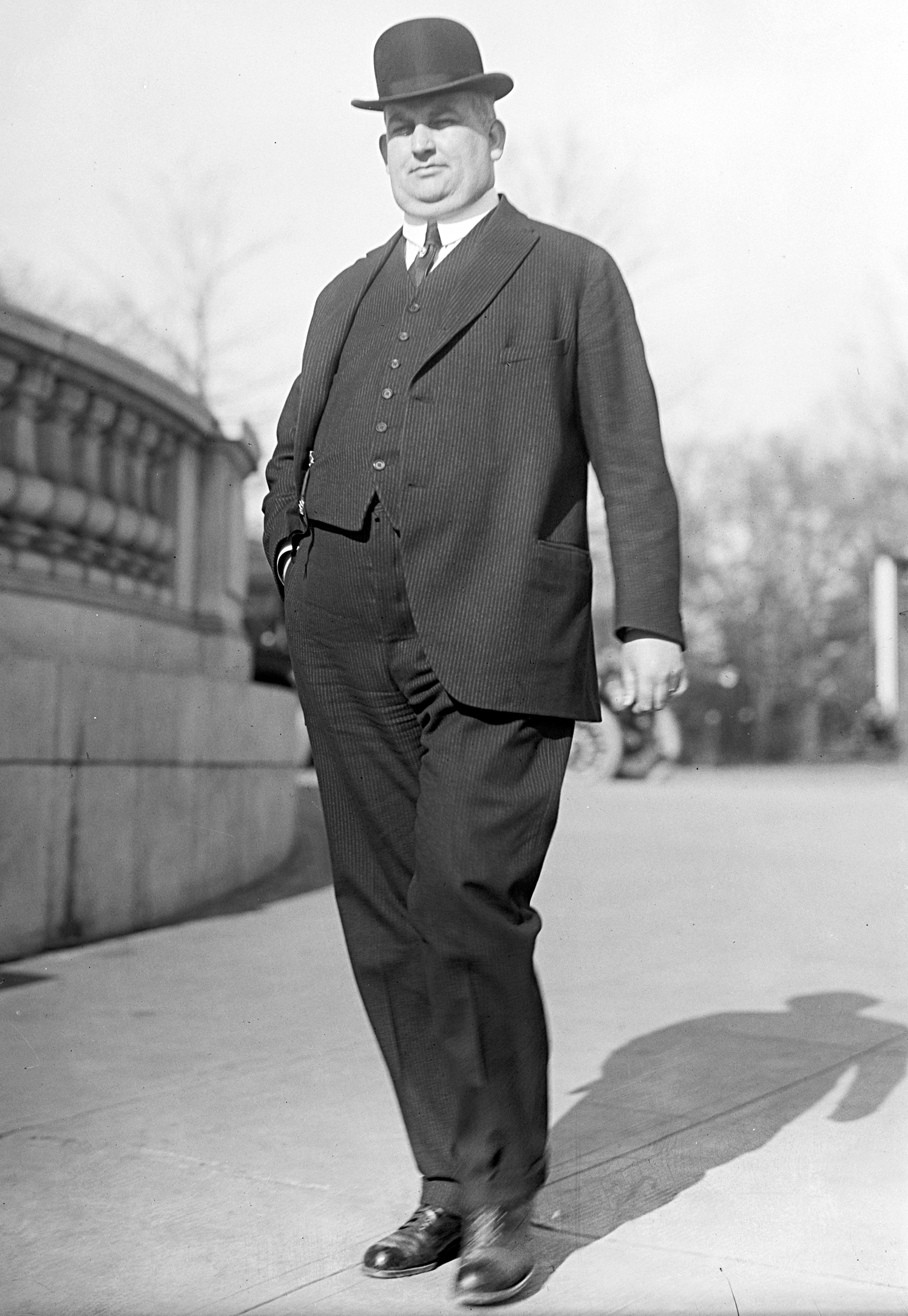 William L. Igoe, US Representative from Missouri